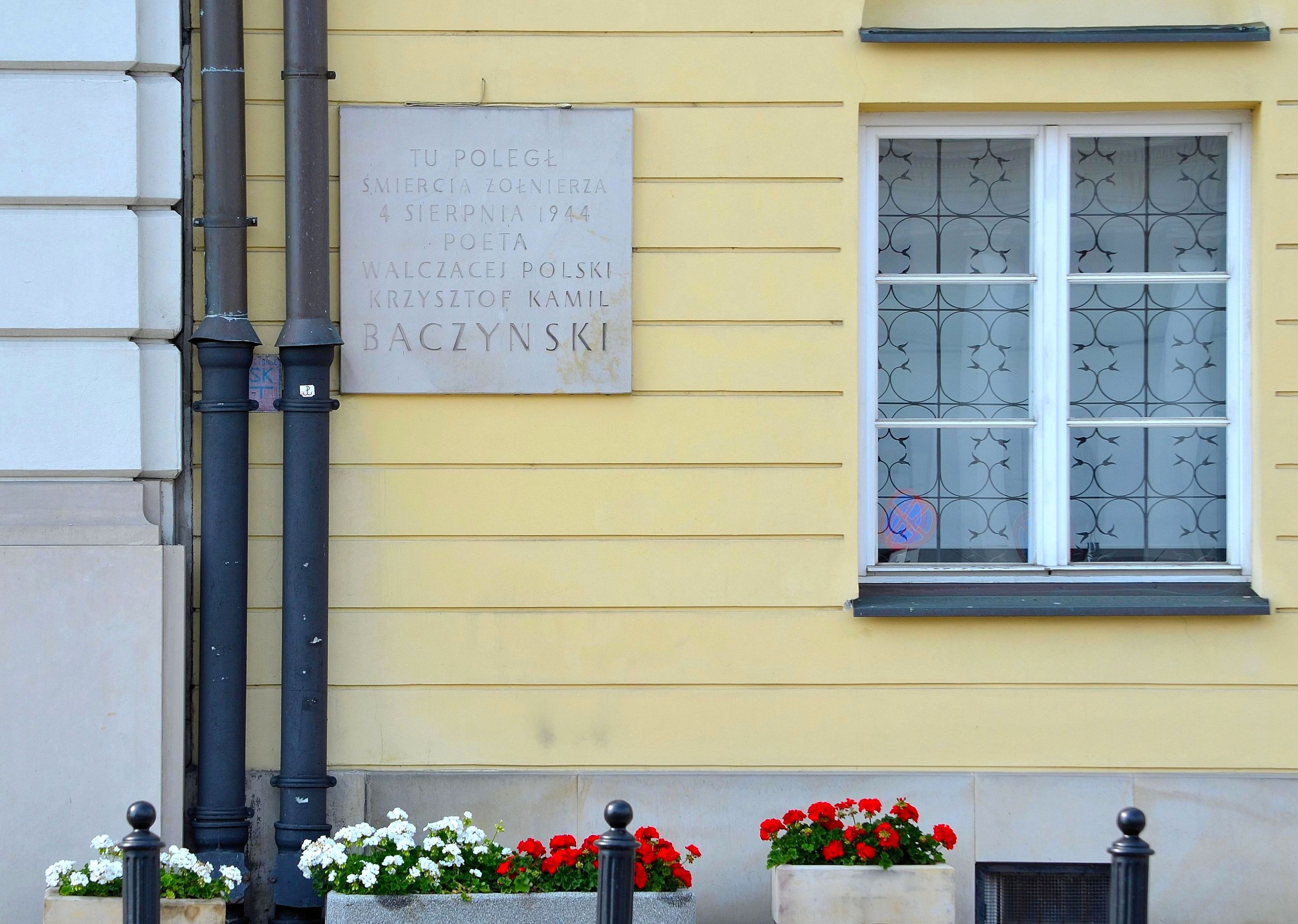 Plaque in memory of Krzysztof Kamil Baczyński on the Blanka Palace in Warsaw